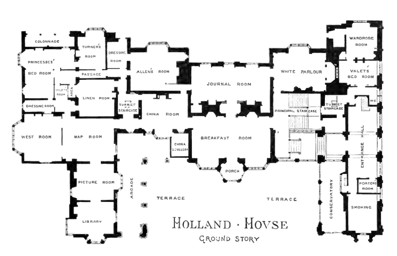 Floor plan of the ground story (British; American, "first floor") of Holland House.